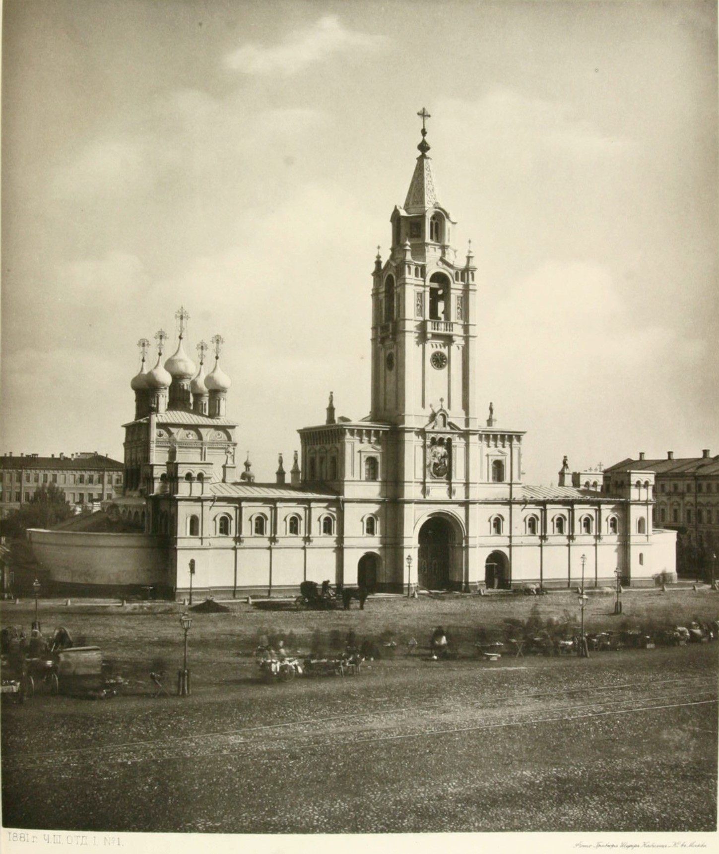 Strastnoy Monastery in present-day Pushkin Square in Moscow, 1852